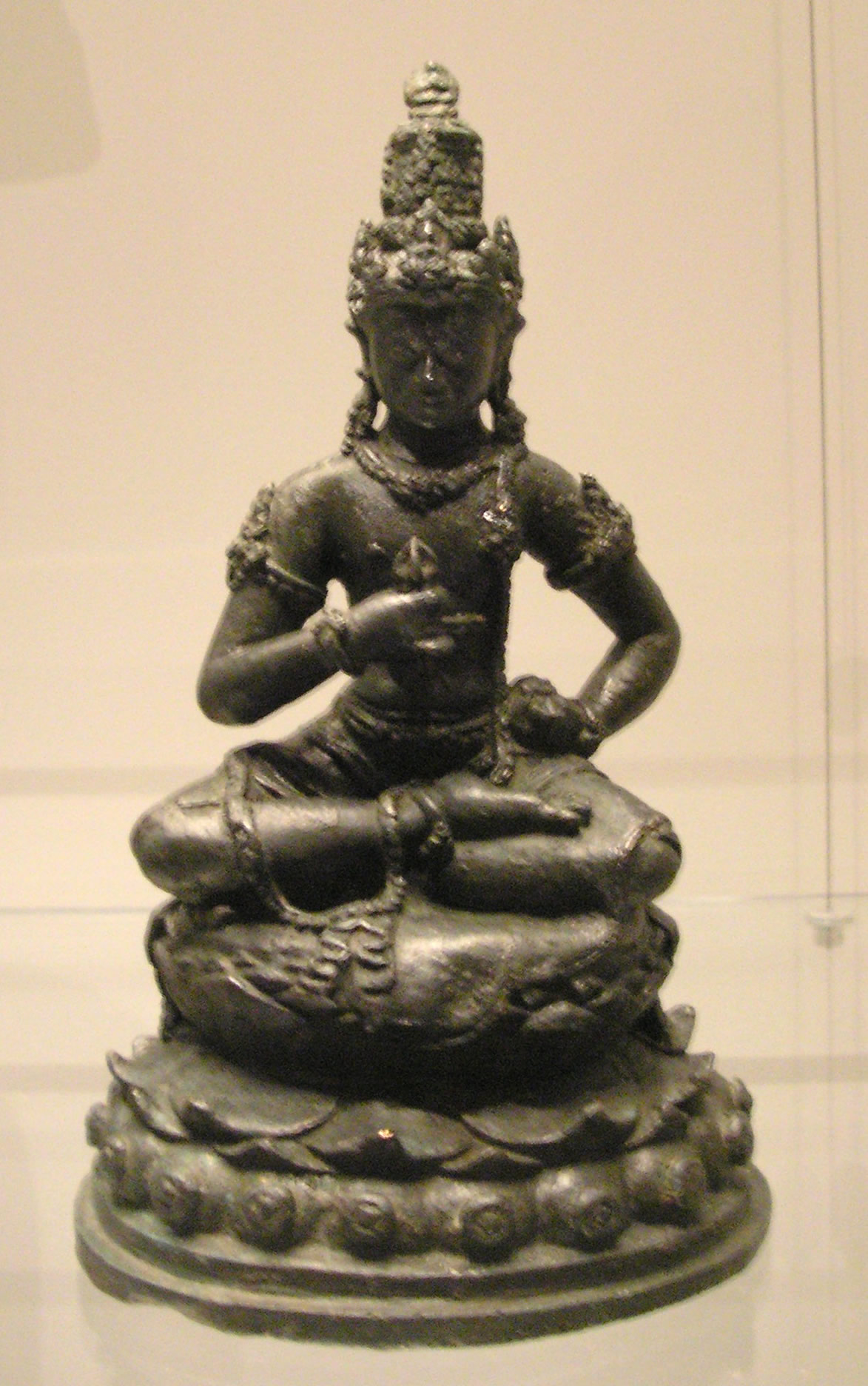 Vajrasattva. eastern Java, Kediri period, 10th/11th century CE, bronze, 19.5 x 11.5cm. Located in the Museum für Indische Kunst, Berlin-Dahlem.